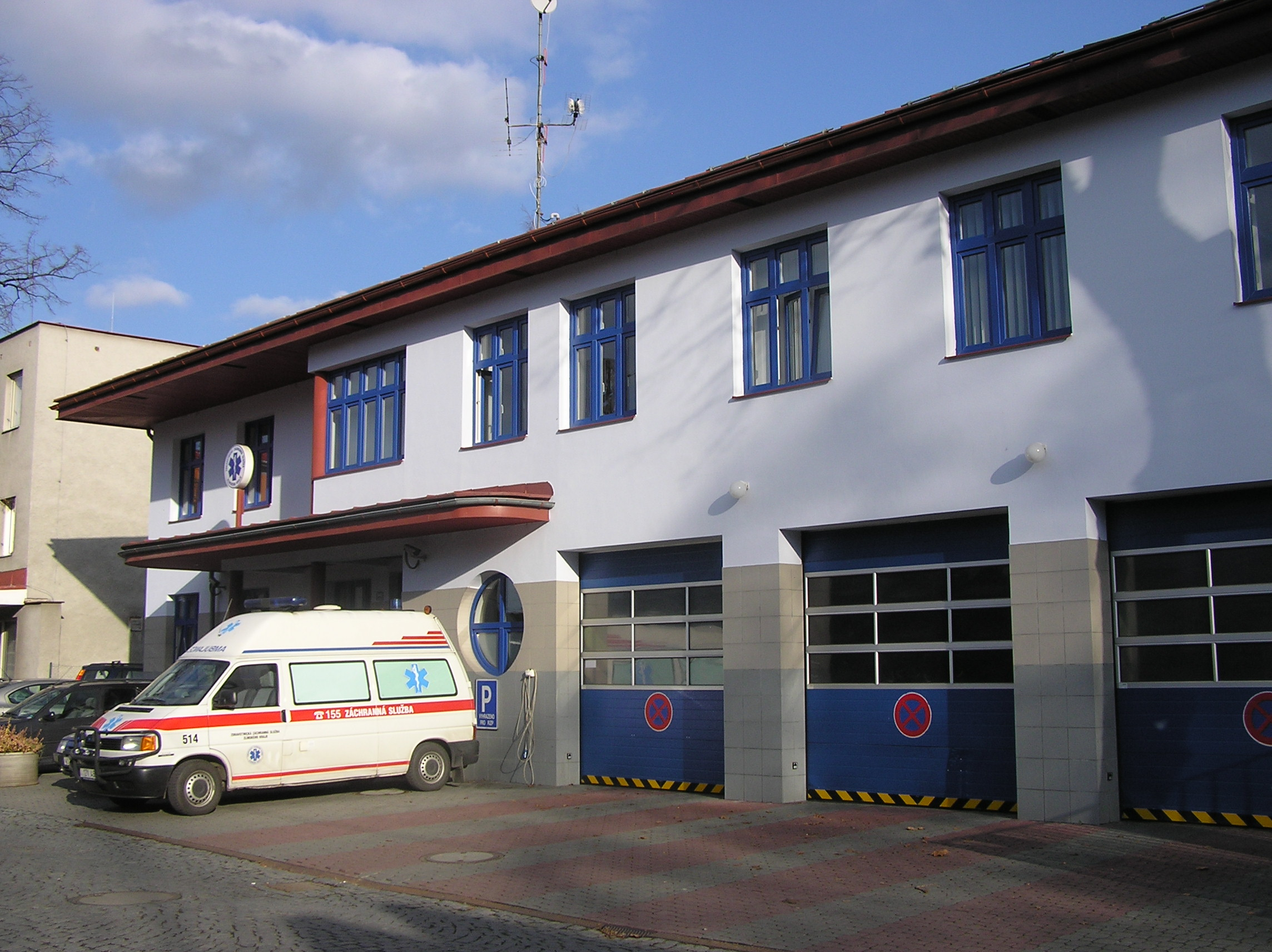 Station of the Emergency Medical Service of Zlín Region, Vsetín, Czech Republic